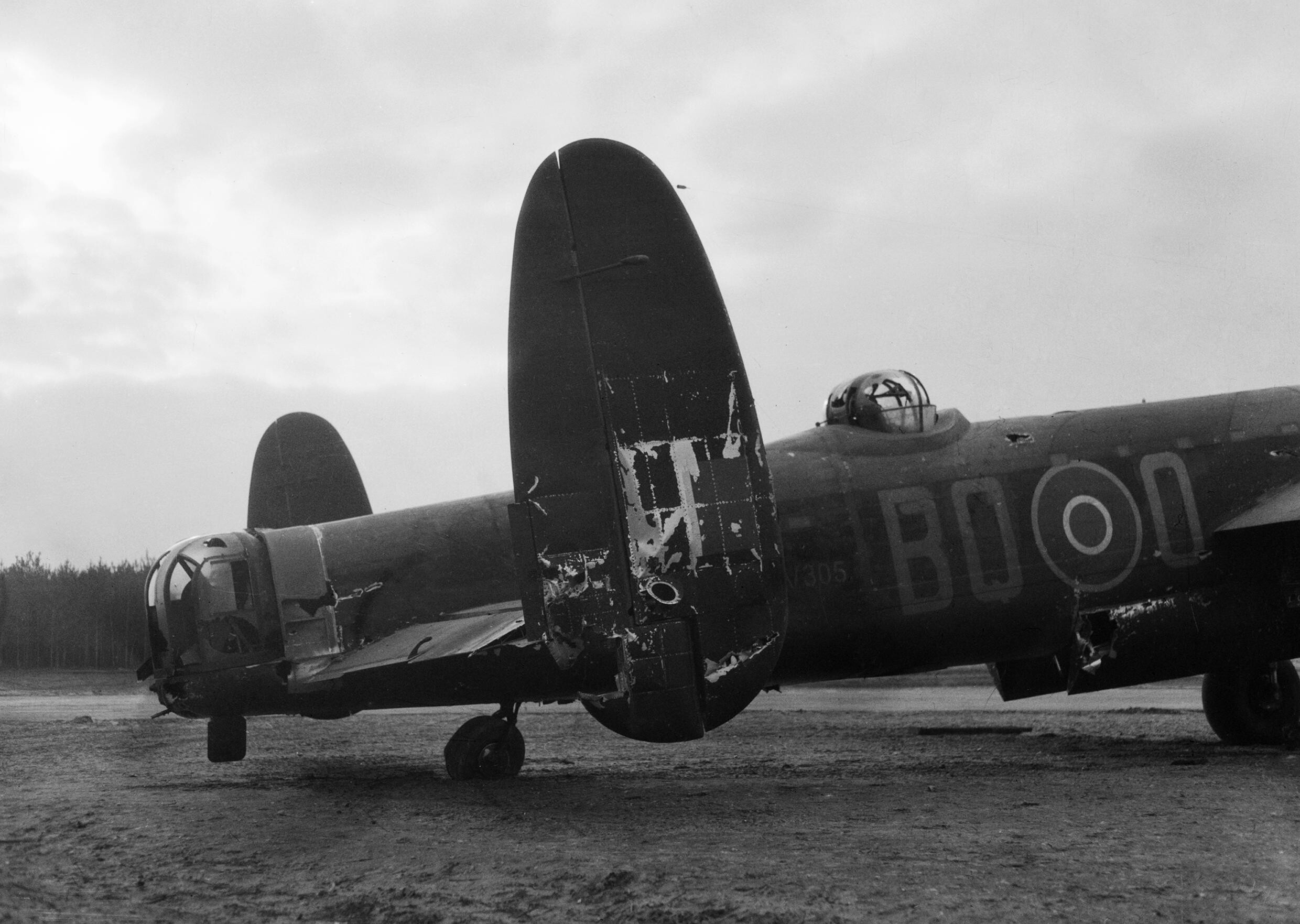 Royal Air Force Bomber Command, 1942-1945. The rear section of Avro Lancaster B Mark I, DV305 'BQ-O', No. 550 Squadron RAF based at North Killingholme, Lincolnshire, seen at Woodbridge Emergency Landing Ground, Suffolk, after the severely-damaged aircraft crash-landed there following an attack by a German night fighter over Berlin on the night of 30/31 January 1944. In the course of the attack both the rear gunner and the mid-upper gunner were killed, and the bomb-aimer baled out having misunderstood orders. The pilot, Flying Officer G A Morrison, managed to bring the crippled aircraft back without any navigation aids.